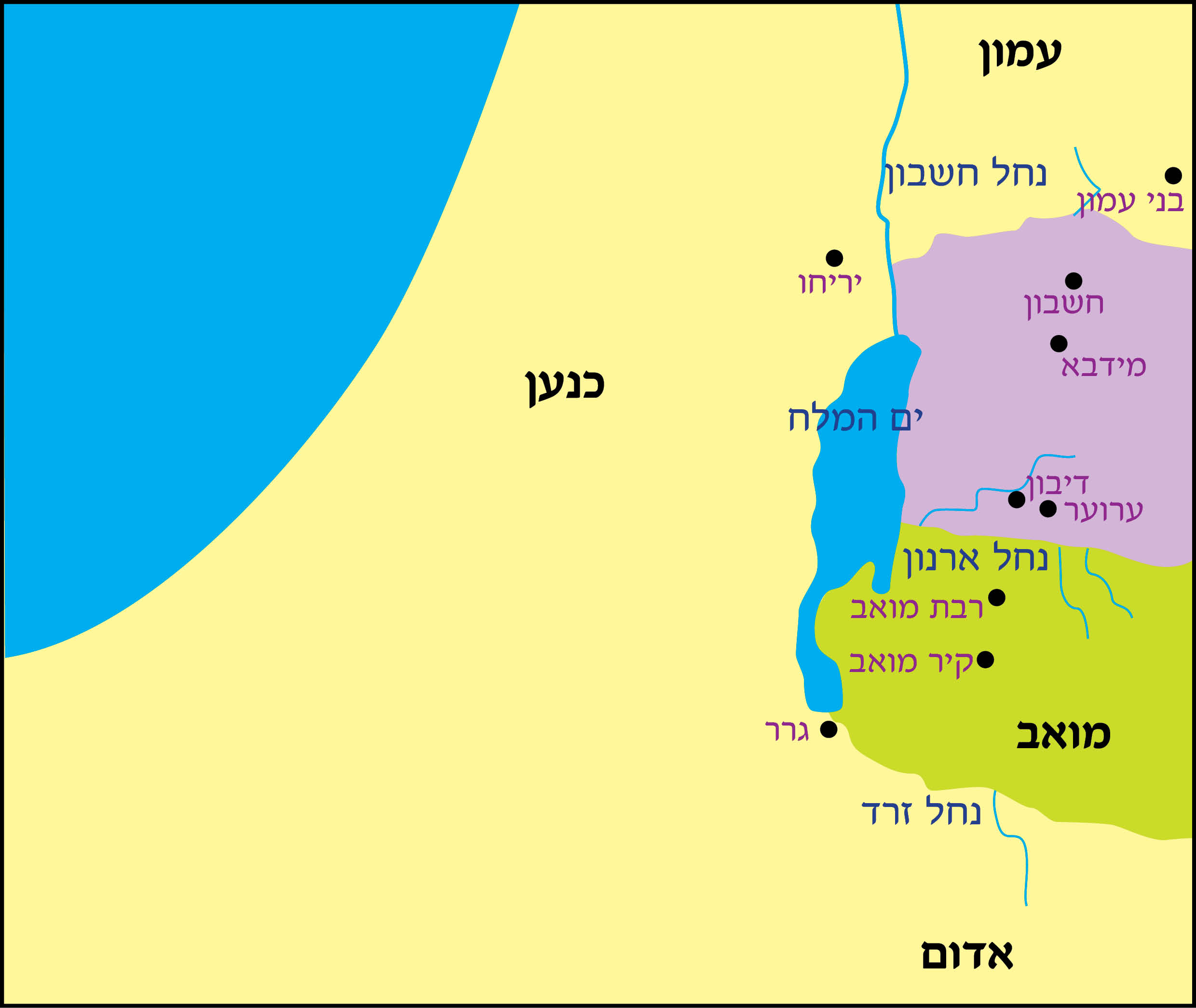 A map depicting the Eastern Transjorden with the names of the tribes.